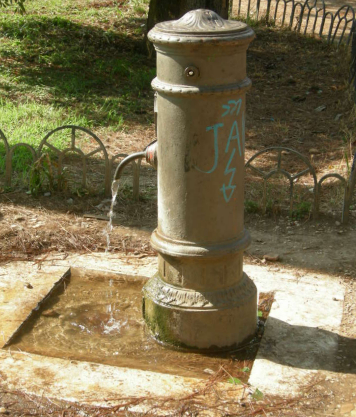 A typical "Nasone" (big nose) water fountain in Villa Torlonia, Rome